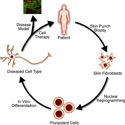 The production of cellular therapies requires the optimization of four steps: first, isolating and culturing cells that can be readily obtained from a patient in a non-invasive fashion. Second, the reprogramming of these cells into a pluripotent state. Third, the directed differentiation of those patient-specific pluripotent cells into the cell type relevant to their disease. And, fourth, techniques for repairing any intrinsic disease-causing genetic defects and transplantation of the repaired, differentiated cells into the patient. Notably, these disease-relevant patient cells can also be used for in vitro disease modeling which may yield new insights into disease mechanisms and drug discovery.